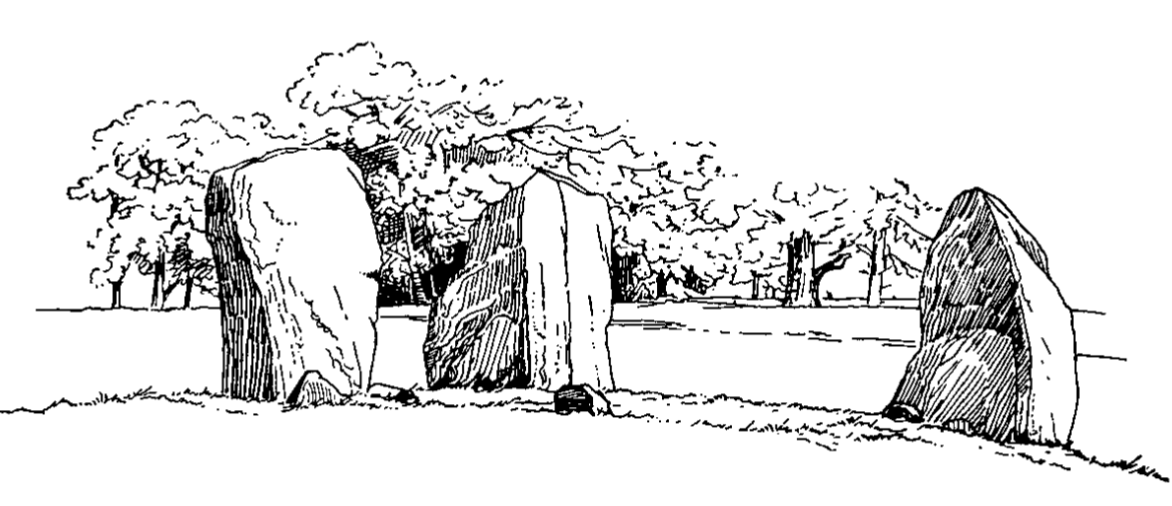 Sketch of remains in 1900 of Nether Coullie stone circle, Monymusk, Frederick Coles, 1901